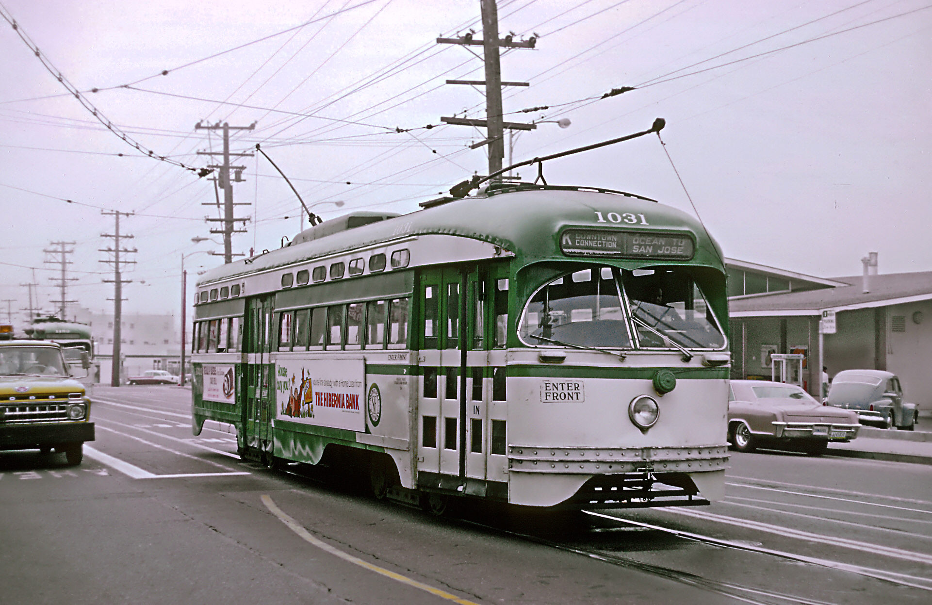 MUNI PCC 1031, a K INGLESIDE CONNECTION OCEAN TO SAN JOSE on Ocean Ave. at Lee Ave. in San Francisco, CA on August 24, 1967. This file comes from the Roger Puta collection, which passed to Mel Finzer. They were scanned and posted by Marty Bernard, are in the Public Domain. Attribution to "Roger Puta" is not required for a PD image, but should be done as a matter of courtesy to a major Commons contributor. Mel Finzer, the heirs of this work's copyright holder (usually the creator) have released it into the public domain. This applies worldwide. In some countries this may not be legally possible; if so: The heirs of the creator grant anyone the right to use this work for any purpose, without any conditions, unless such conditions are required by law. See This work is free and may be used by anyone for any purpose. If you wish to use this content, you do not need to request permission as long as you follow any licensing requirements mentioned on this page.